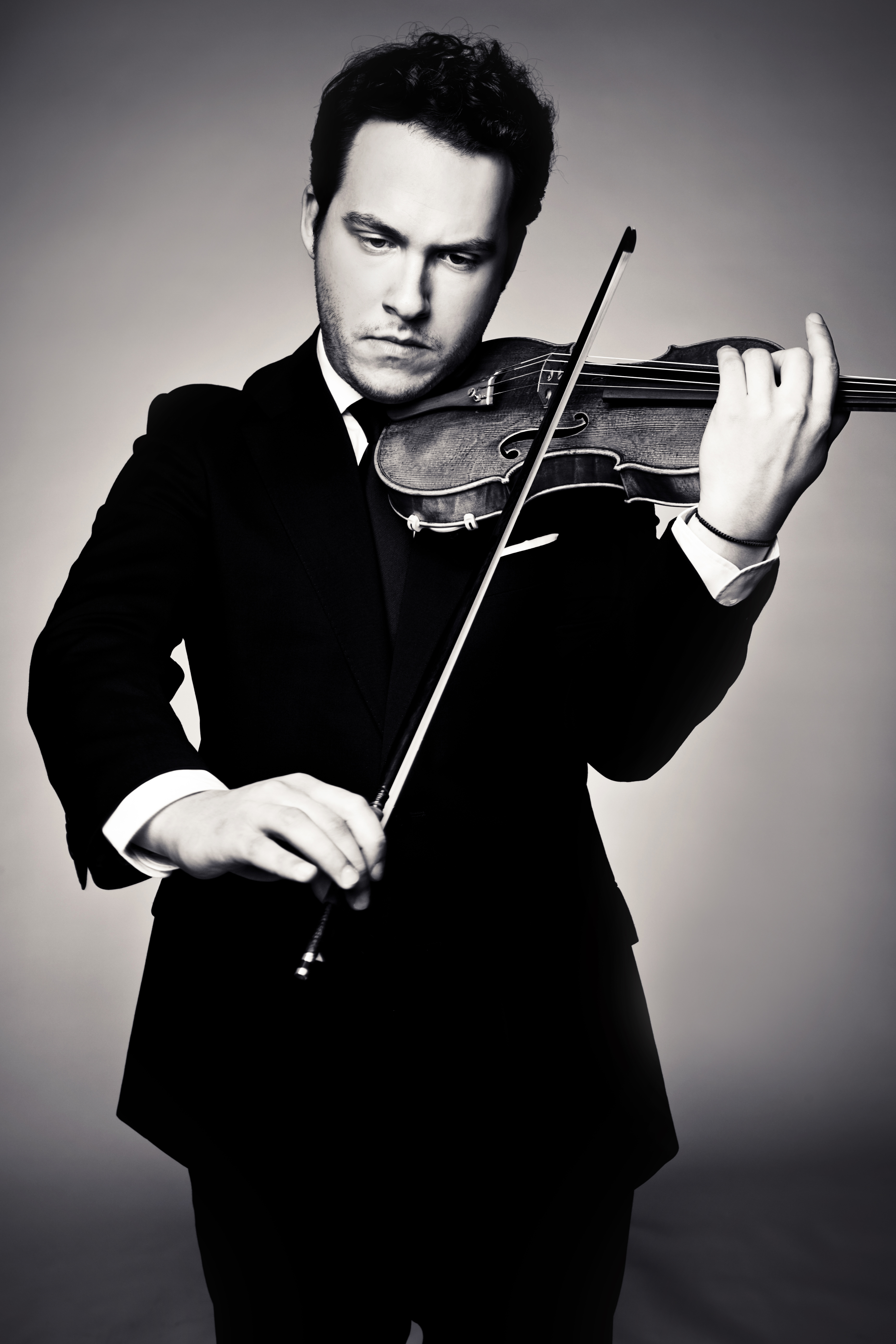 Violinist Giora Schmidt photographed by Dave Getzschman. San Francisco, CA, March 2011